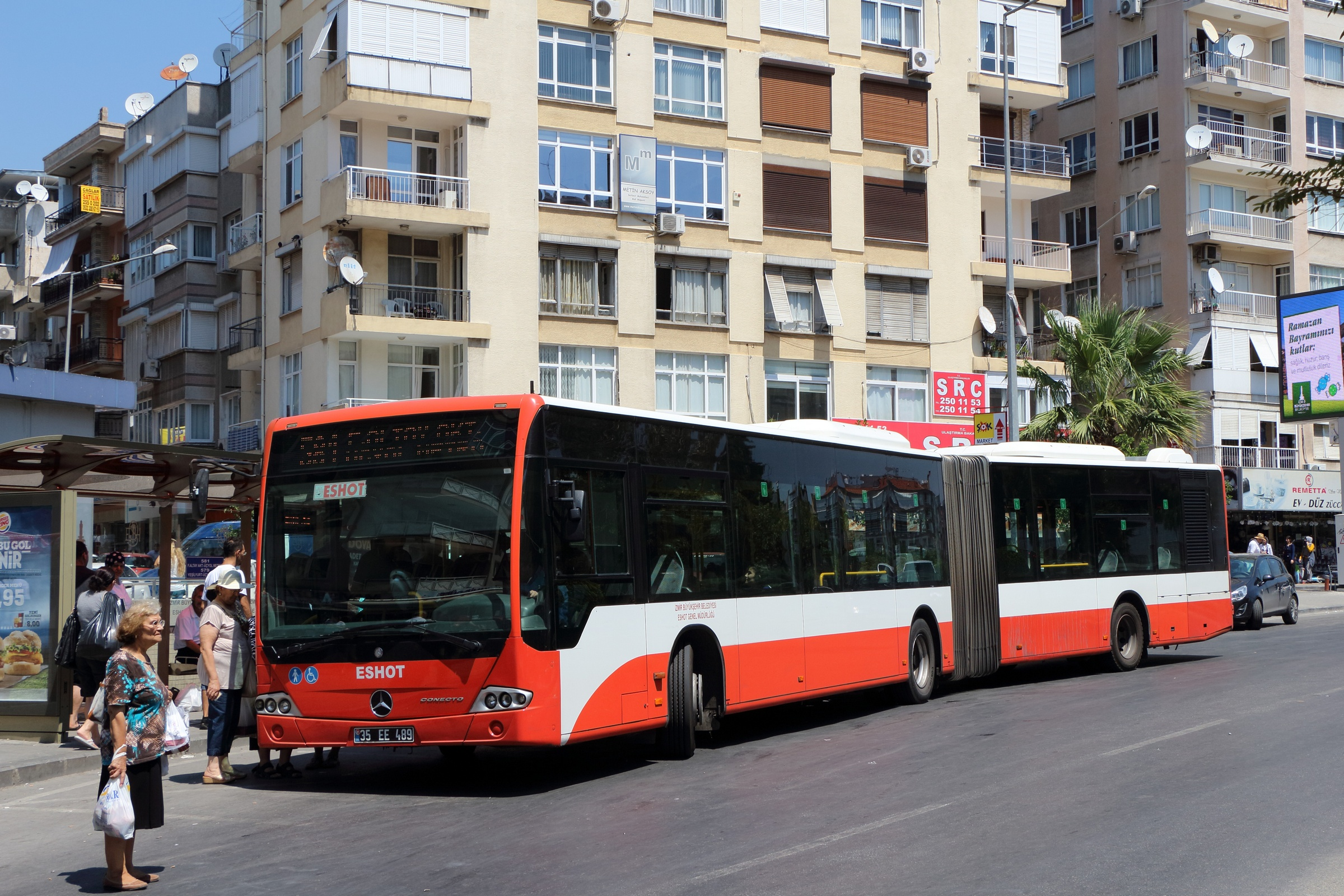 Bus in Izmir, Turkey (Mercedes-Benz Conecto)